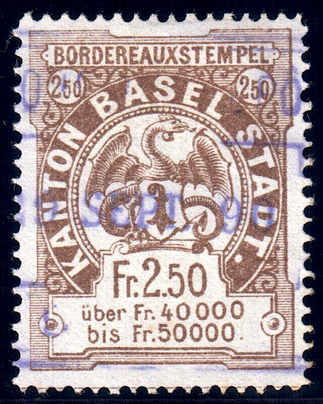 Switzerland Basel 1884 bordereau revenue 2.50Fr - 6C, perforated 12.75-13.25.